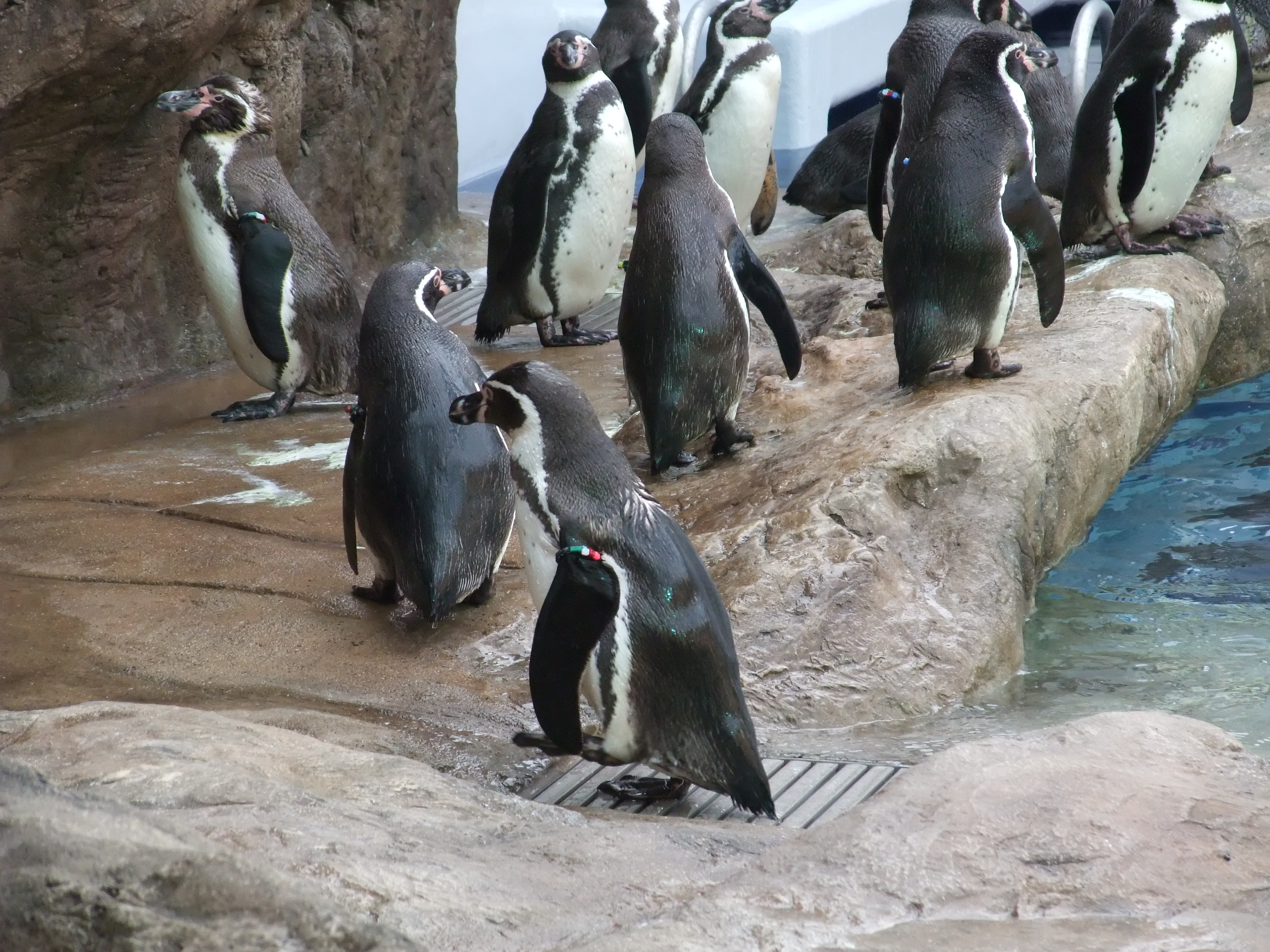 Spheniscus humboldti AQUAS